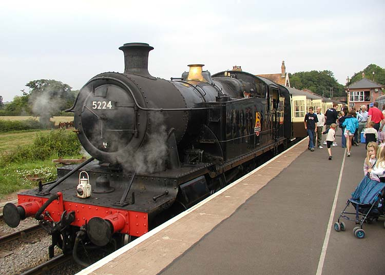 Bishops Lydeard station of the West Somerset Railway, 26th August 2003. Photographed by Adrian Pingstone and released to the public domain.